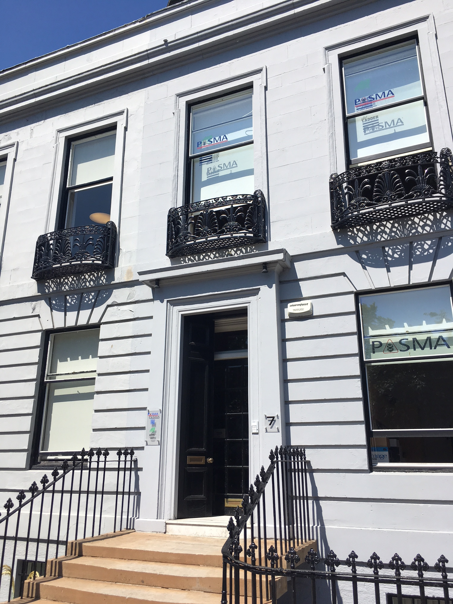 This is a building in the city of Glasgow.